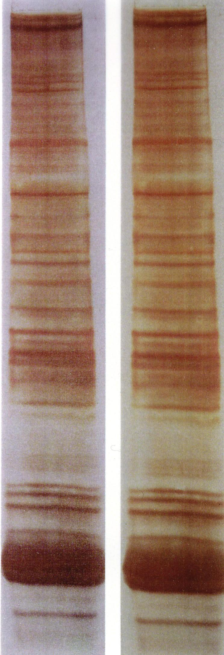 Proteins in two silver-stained SDS-PAGE gels, left: gel stored for two days, right: same gel after storage for 15 years.